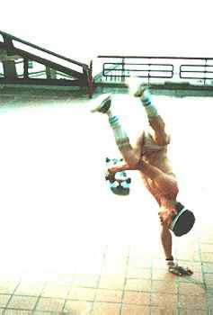 Freestyle: rail to handplant to 360° move with the board Foto door Hans